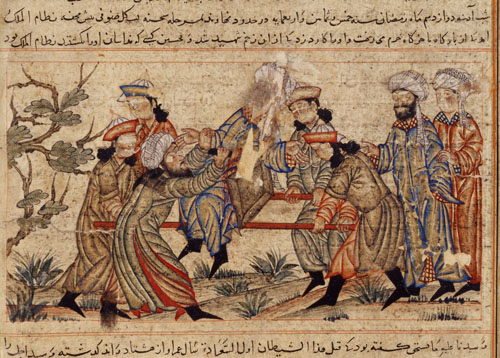 An agent (fida’i) of the Ismailis («Order of Assassins») (left, in white turban) fatally stabs Nizam al-Mulk, a Seljuk vizier, in 1092.